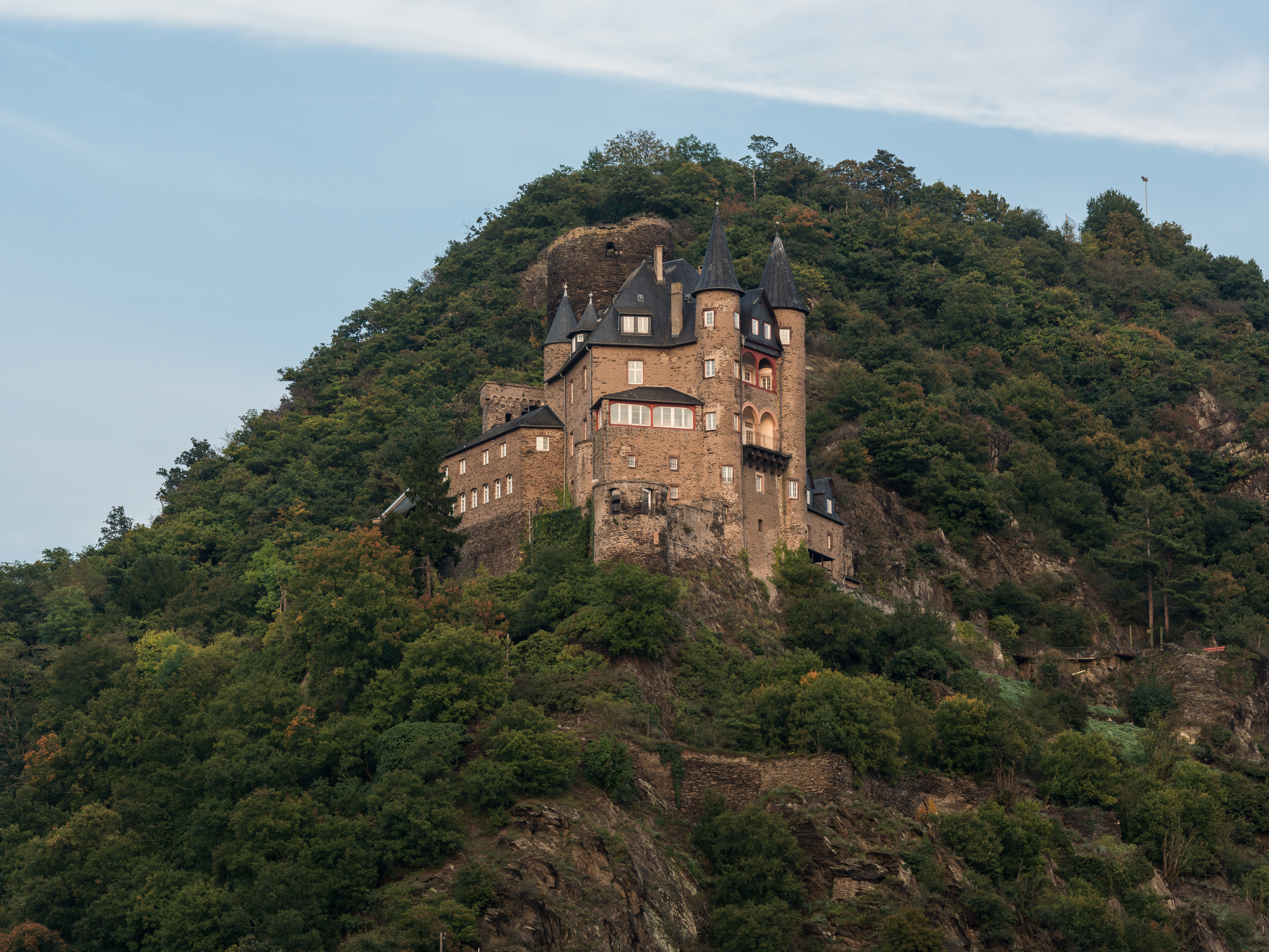 Burg Katz in St. Goarshausen, Rheinland-Pfalz as seen from southwest